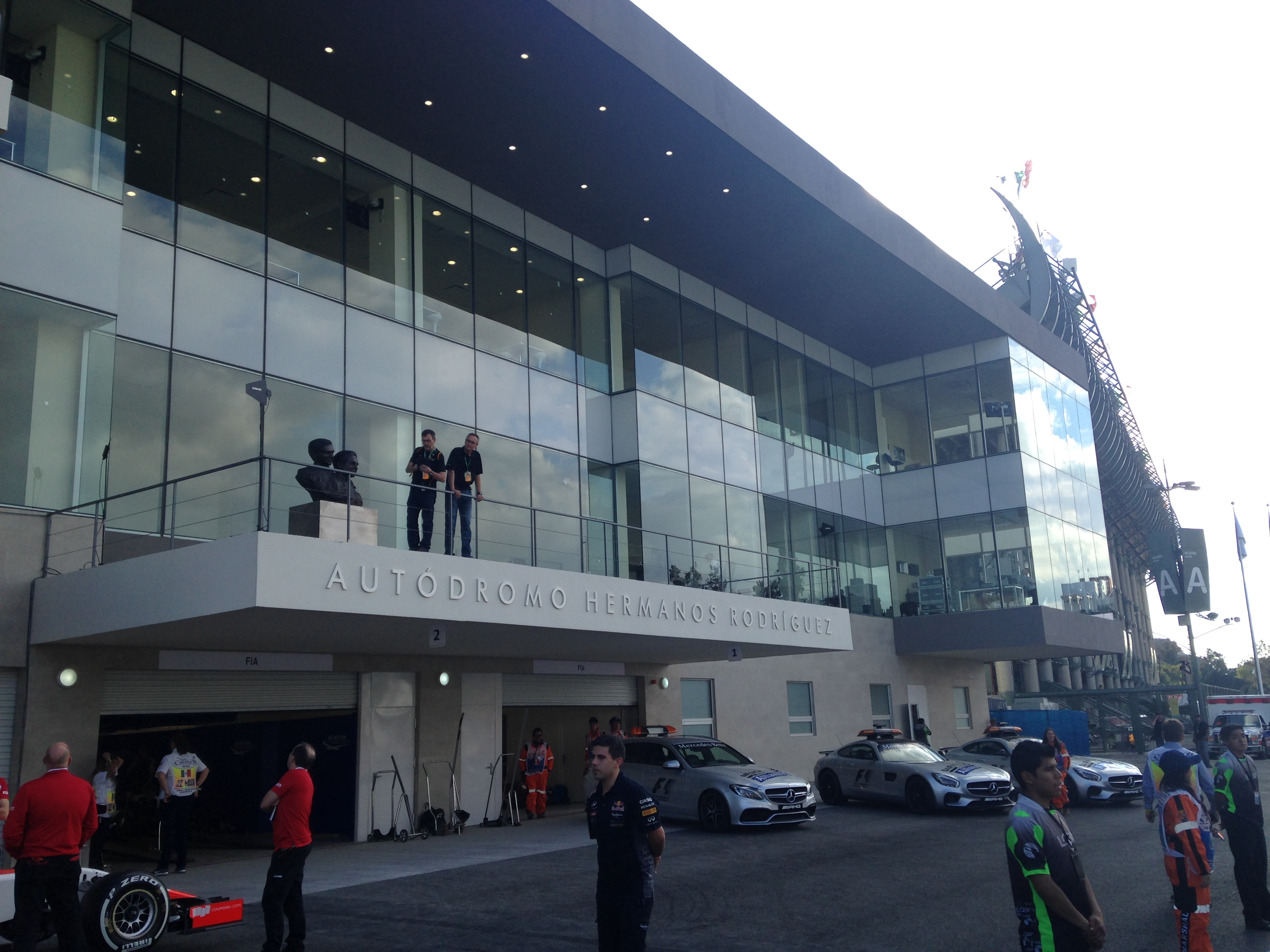 PitWalk Mexican Grand Prix 2015, Autódromo Hermanos Rodríguez. Mexico City, Mexico.